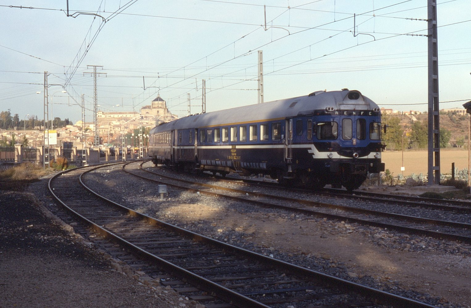 With the buildings of the historic city of Todeo in the background, 597.010 is seen on 5 November 1991. The train having arrived and pulled over to the sidings was 6001, 06:05 Cuenca to Toledo. 60 of these 2-car sets were built in the early 1960s originally to work long distance services. Sets included a buffet bar plus first class seating in one car with 2nd (tourist) class in the other. One notable duty in was the daytime service from Madrid to Lisboa. However they were displaced by locomotive hauled sets and EMUs as more lines began to get electrified. Instead of withdrawal they worked many regional services offering passengers a very good standard of comfort.